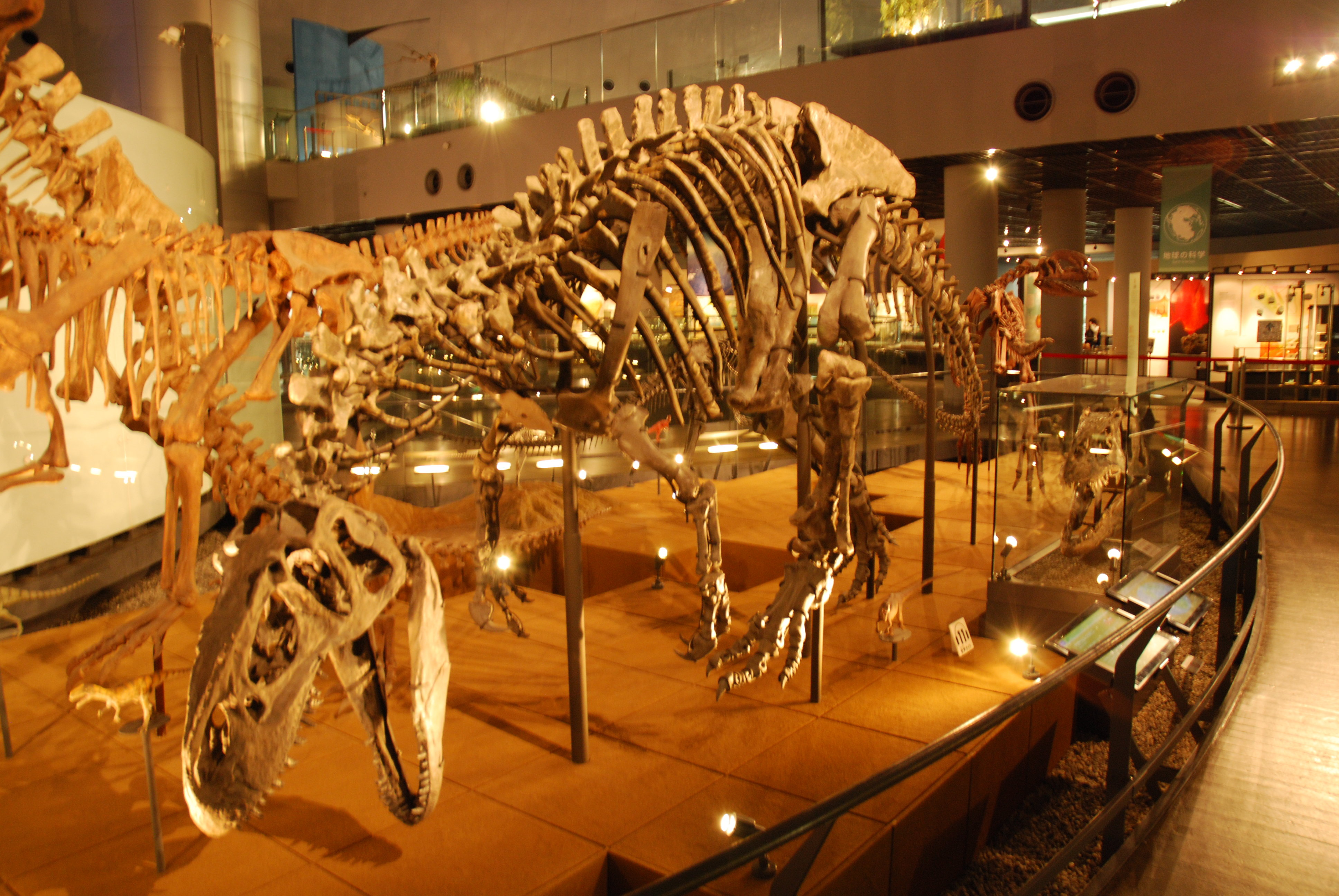 Skeletal mount of Allosaurus fragilis